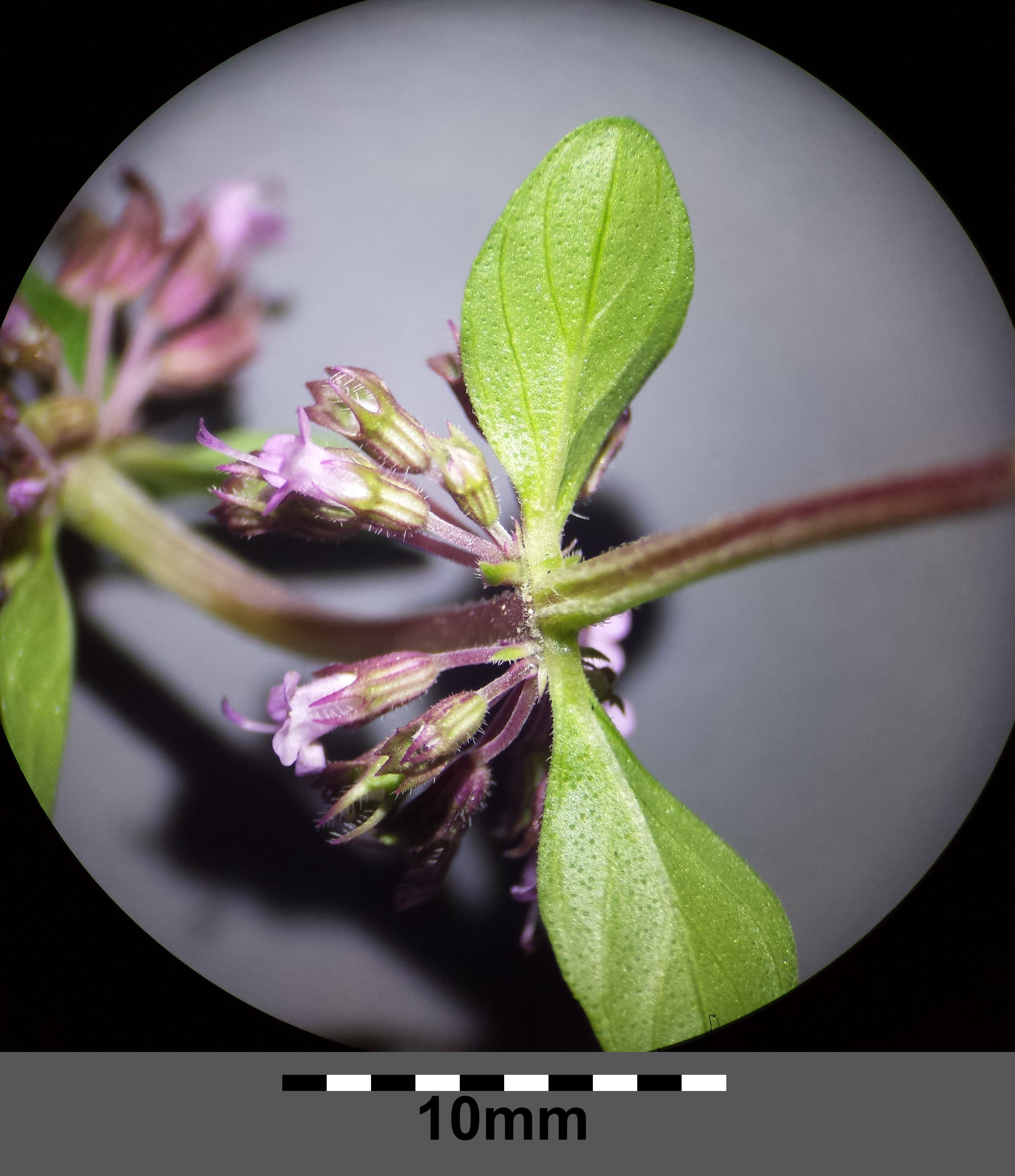 Verticillaster with bracts (♀ individual) Taxonym: Thymus pulegioides subsp. pulegioides ss Fischer et al. EfÖLS 2008 ISBN 978-3-85474-187-9 Location: near Komau, district Freistadt, Upper Austria - ca. 850 m a.s.l. Habitat: slope